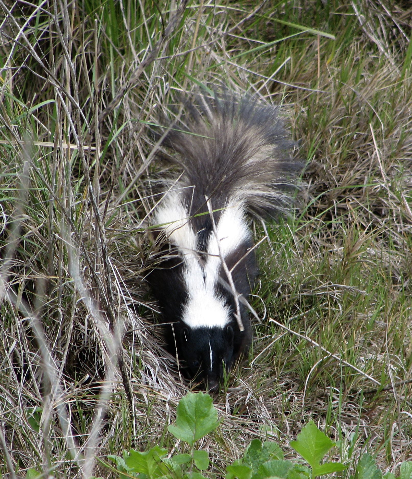 Striped skunk Mephitis mephitis. Baylands, Palo Alto, California.